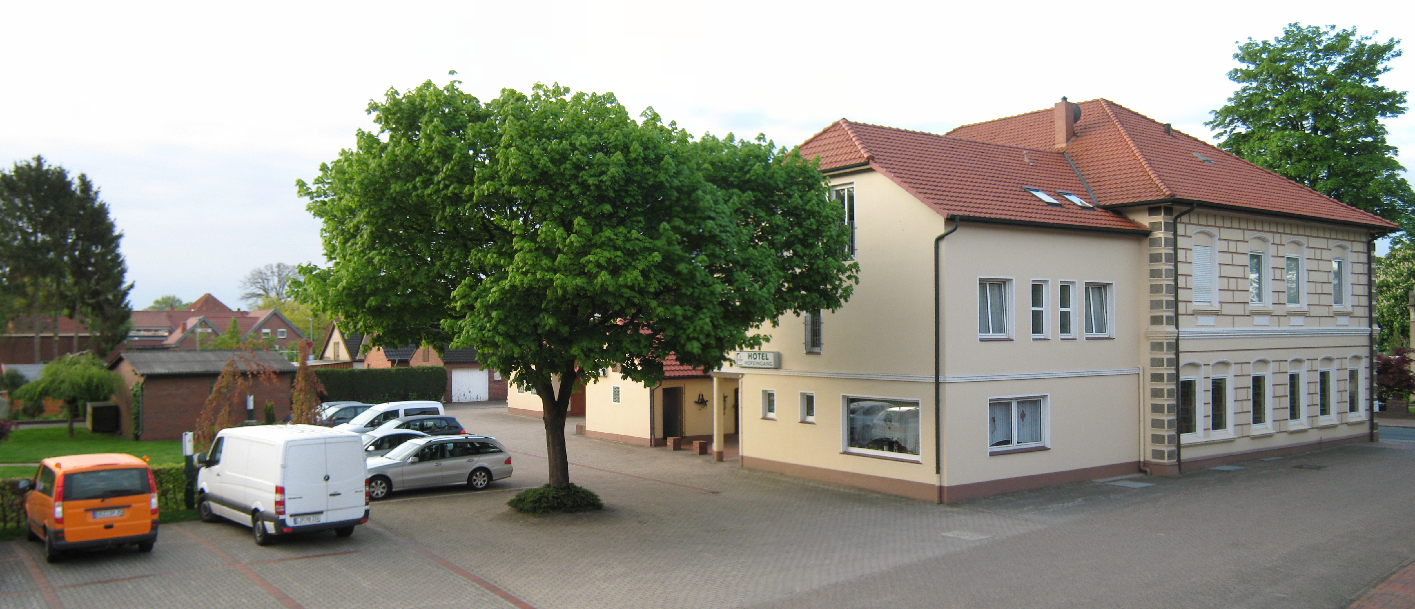 View from Schute Hotel window into the yard